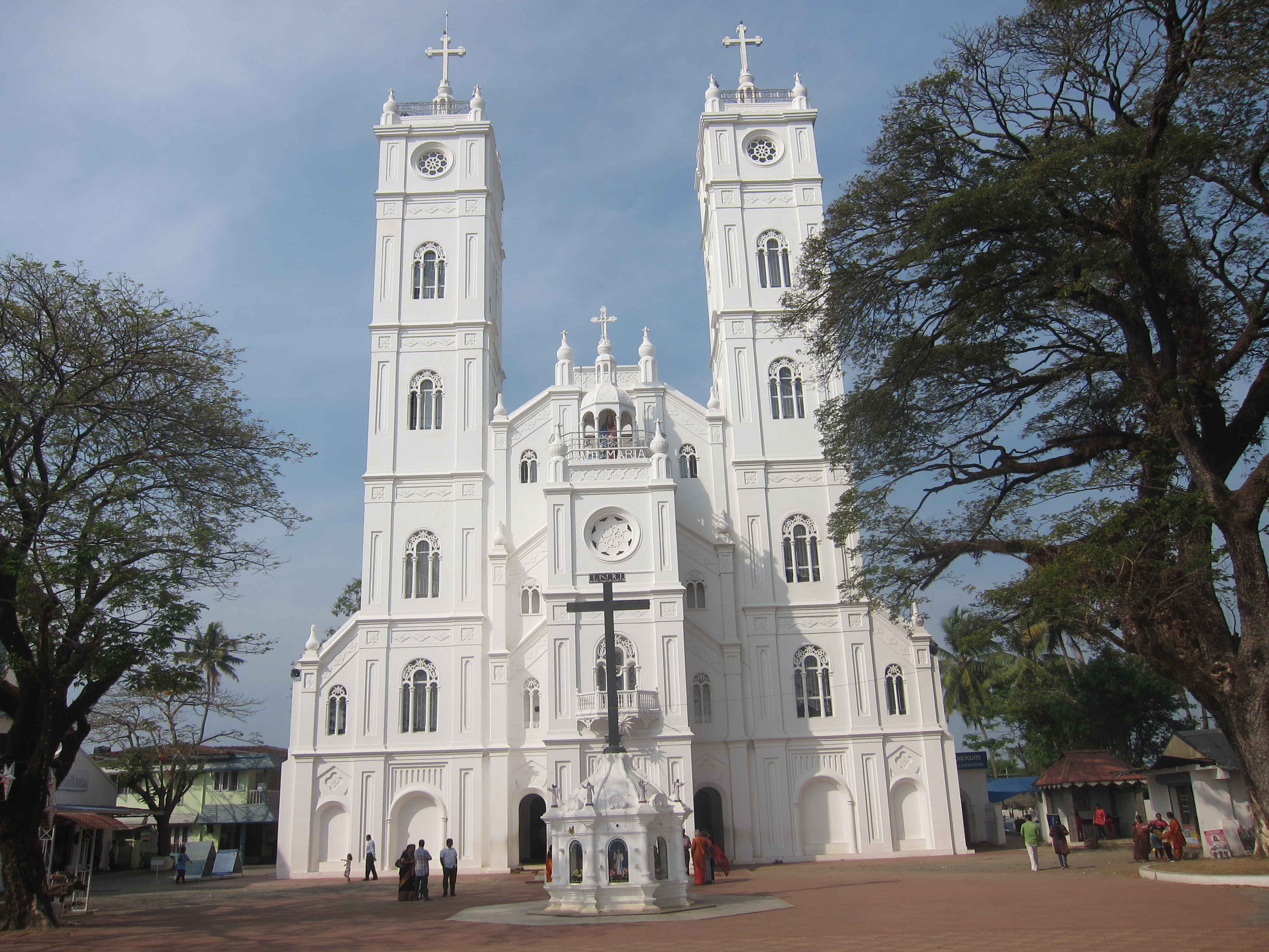 Vallarpadam Church - വല്ലാർപാടം പള്ളി പുതുക്കിയ പള്ളി